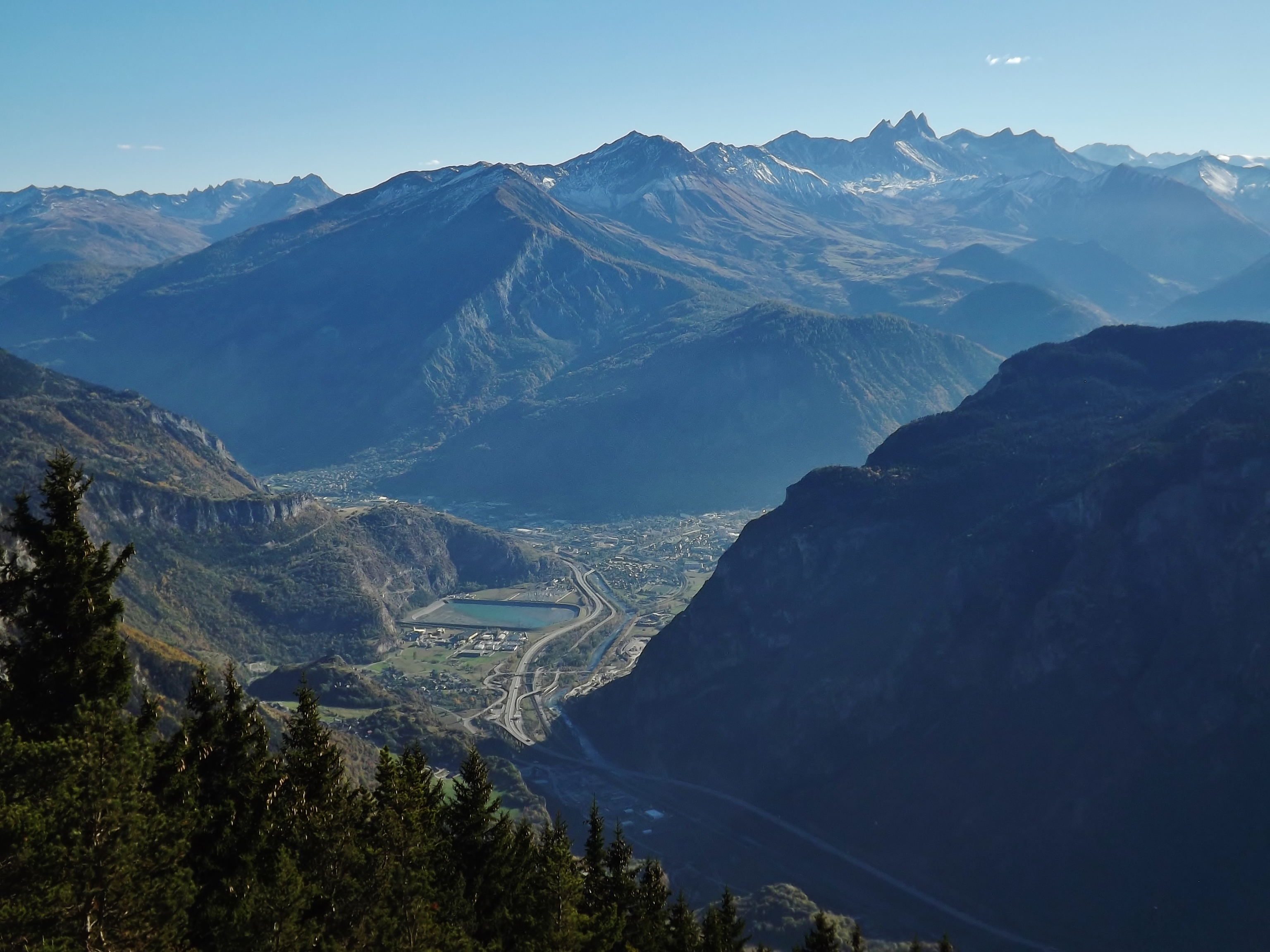 Panoramic sight, from the pointe de l'Armélaz peak (1 840 meters high) of the middle part of the Maurienne valley, with visible Saint-Jean-de-Maurienne and the aiguilles d'Arves peaks, in Savoie.